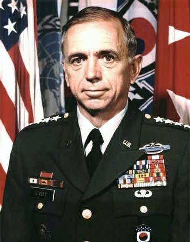 General William J. Livsey from [1]